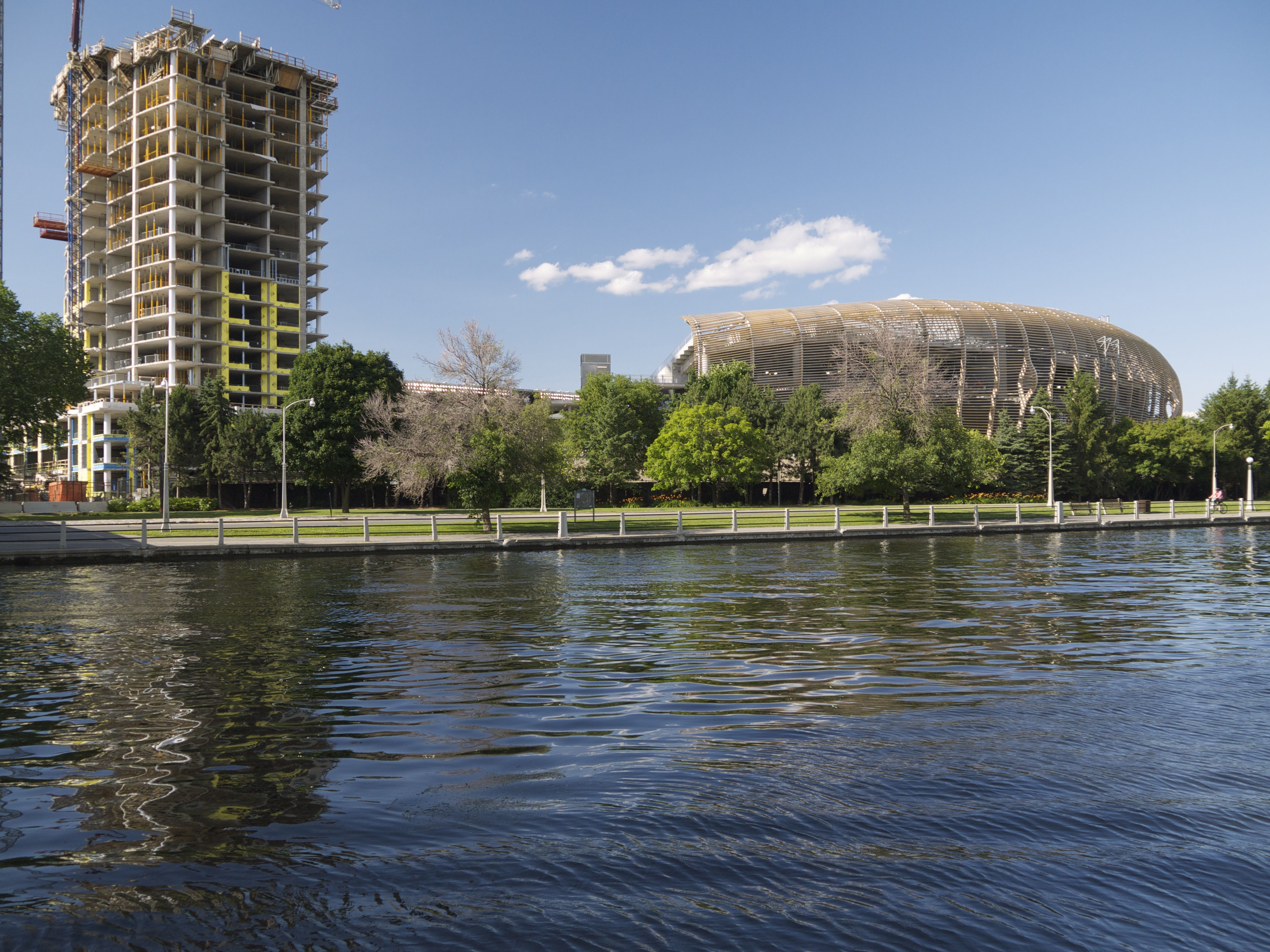 TD Place Stadium in Ottawa. View from across Rideau Canal.